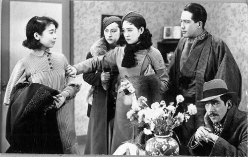 From left to right : Junko Matsui, Yumeko Aizome, Hiroko Kawasaki, Den Obinata and Tatsuo Saitō in the 1934 film Jōen no toshi (情炎の都市) directed by Yasujirō Shimazu